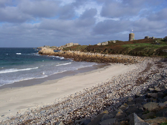 Martello Tower and headland. A view from the corner of L'Ancresse Bay showing the Martello Tower at Banque a Barque. Here the rock outcrop is the pink-coloured L'Ancresse Granodiorite of Cadomian age, whereas the northern-eastern tip of the island is the grey diorite. German fortifications are also in evidence.